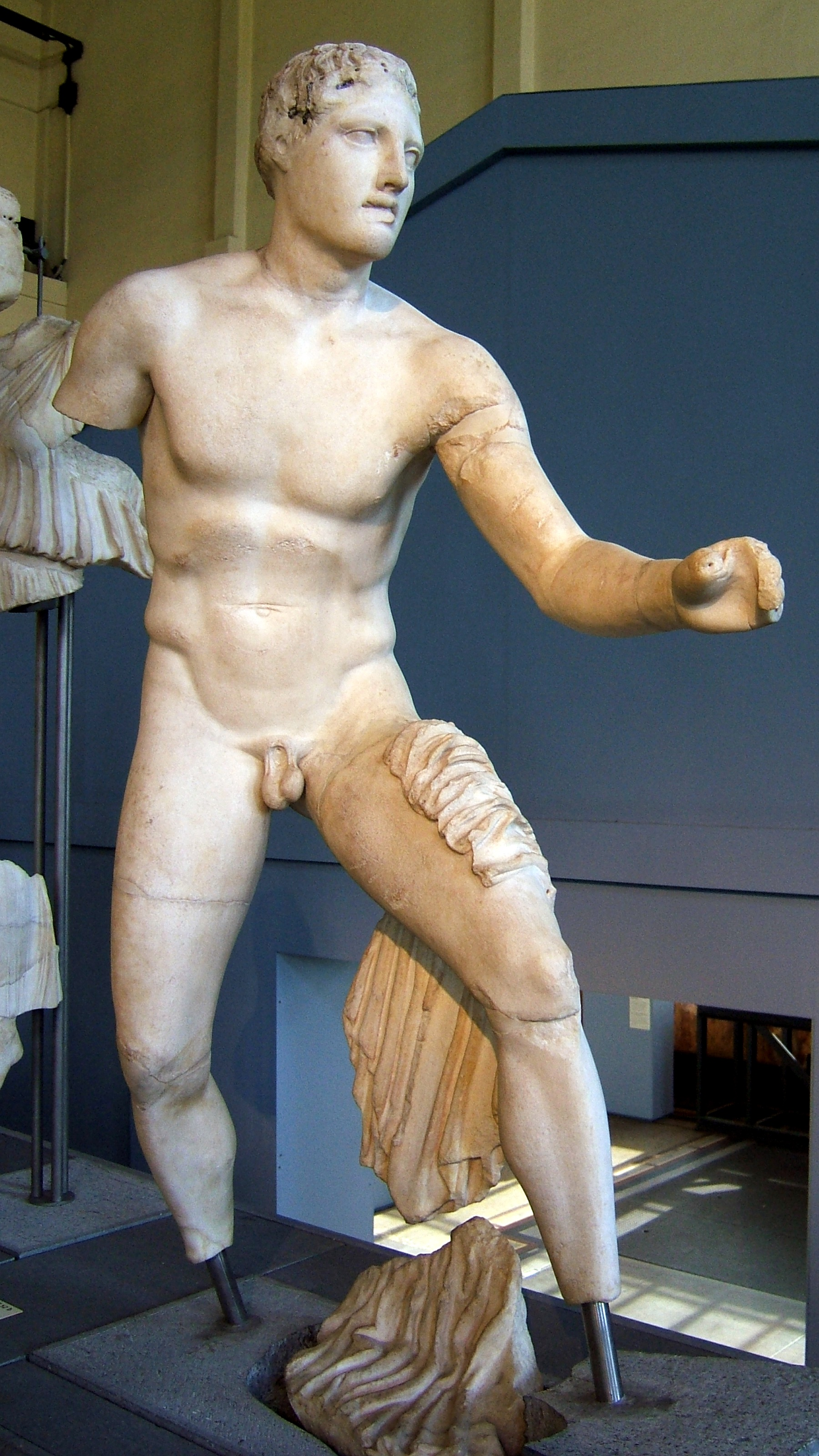 2007-06-12 in Rome.